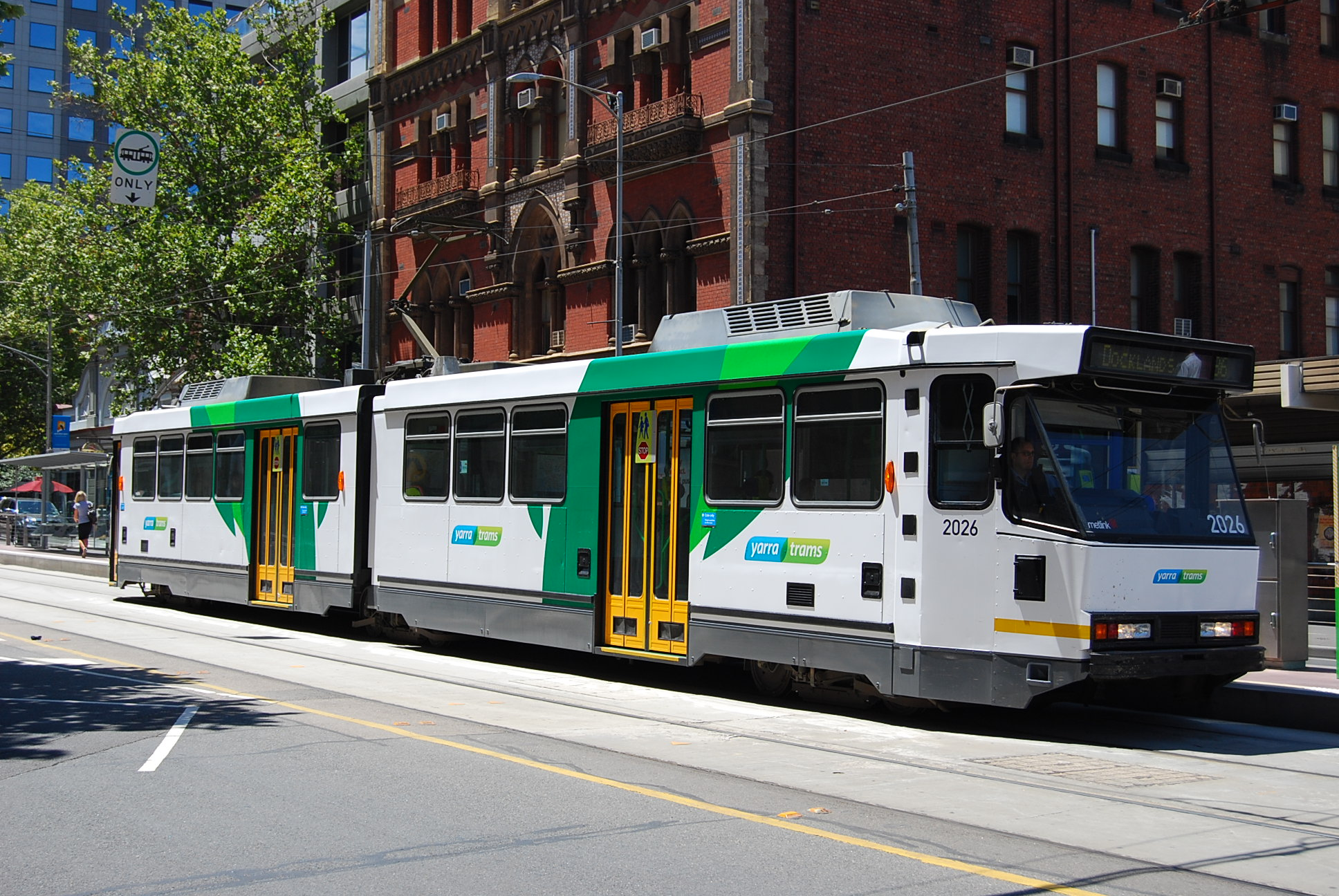 B2 class tram in new Yarra Trams livery